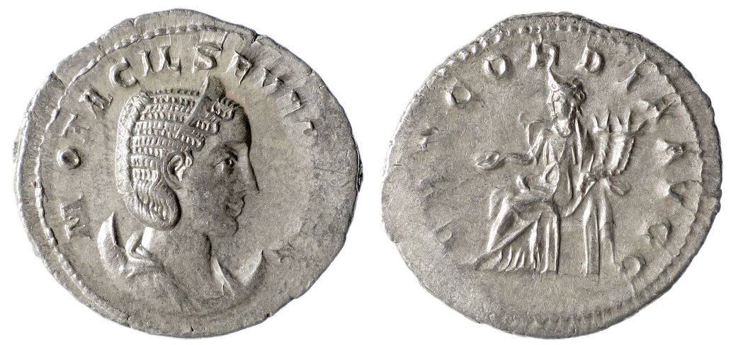 Silver Antoninianus of Octalia Severa. Ruler/Emperor: Octalia Severa; City/Region: Rome; Denomination: AR Antoninianus; Composition: Silver; Date: AD 247; Obverse: OTACILIA SEVERA AVG, diademed and draped bust right on crescent; Reverse: CONCORDIA AVGG, Concordia seated left with patera and cornucopiae, altar before; Reference: RIC 126, RSC 17